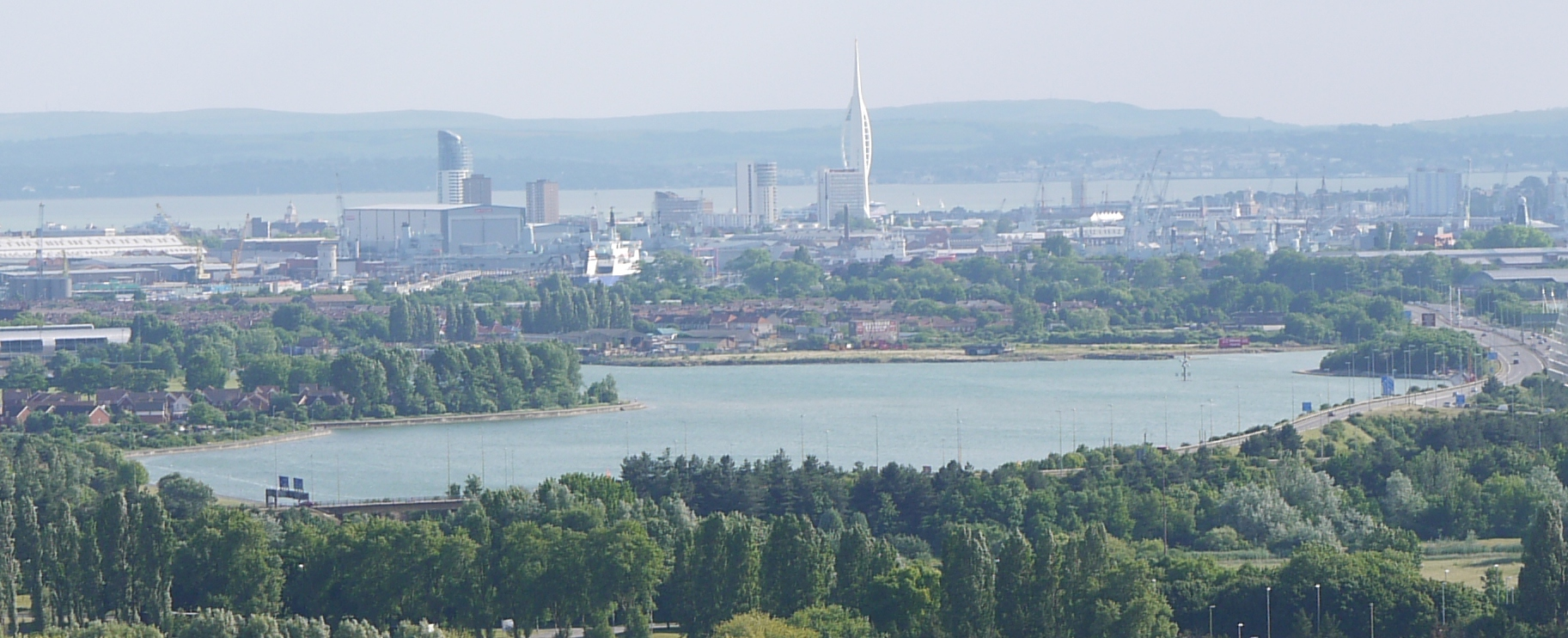 Photo of tipner lake from portsdown hill. A fair chunck of portsea island can been seen in the background.